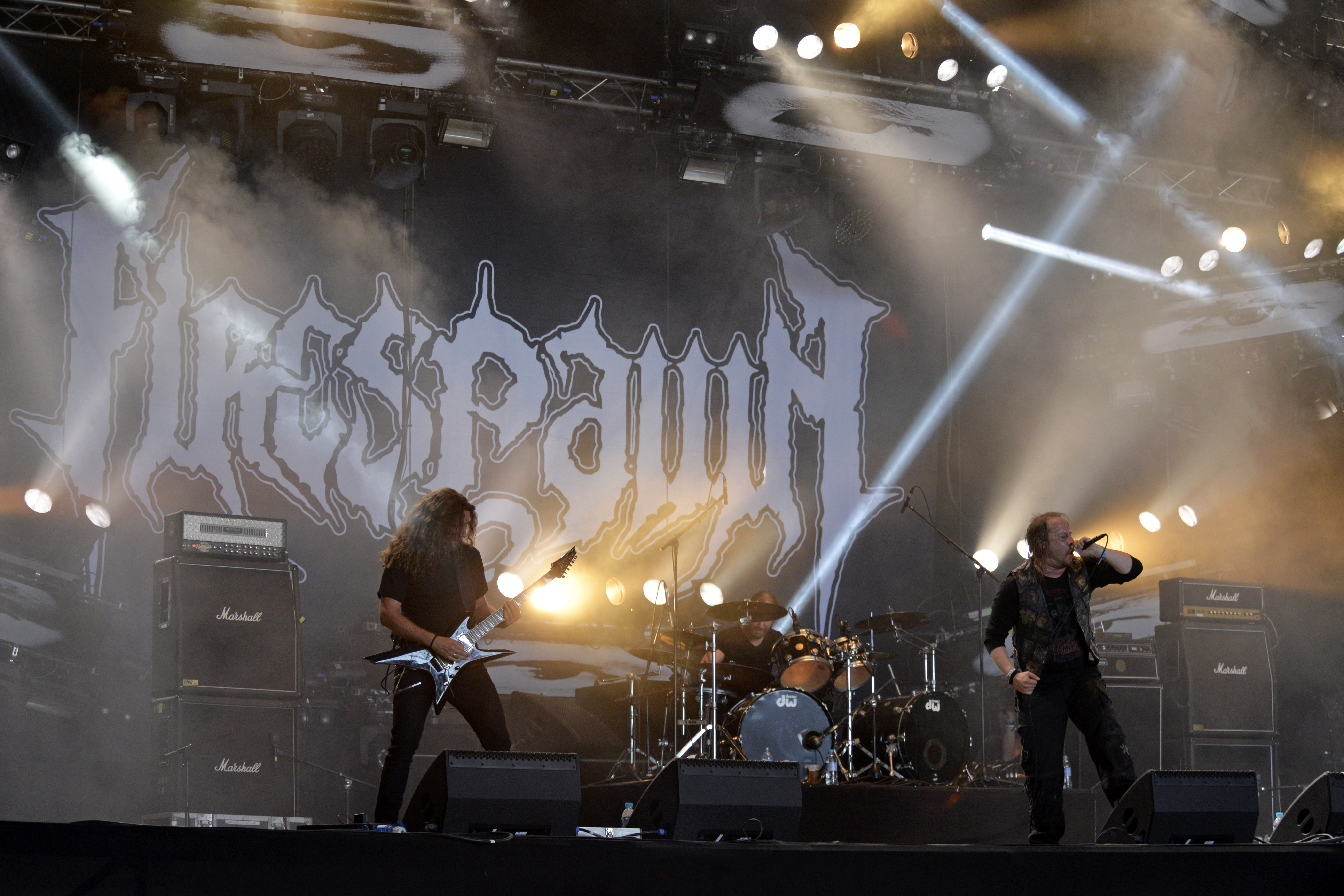 Swedish group Firespawn at Hellfest 2017, France.